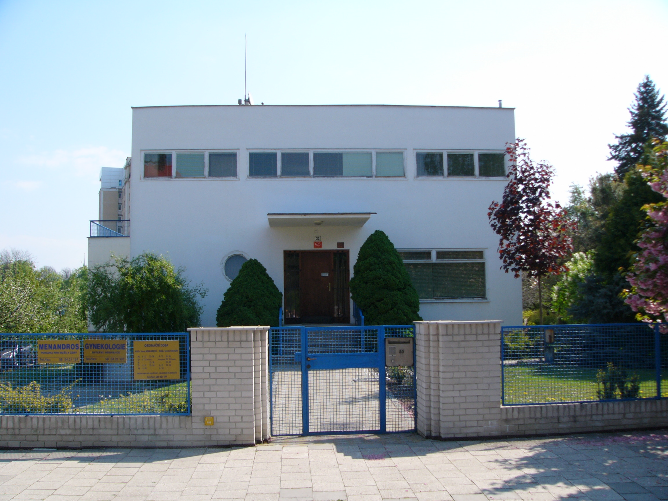 Vila of Nakládal at 35 Polívkova street in Olomouc (Czech Republic).